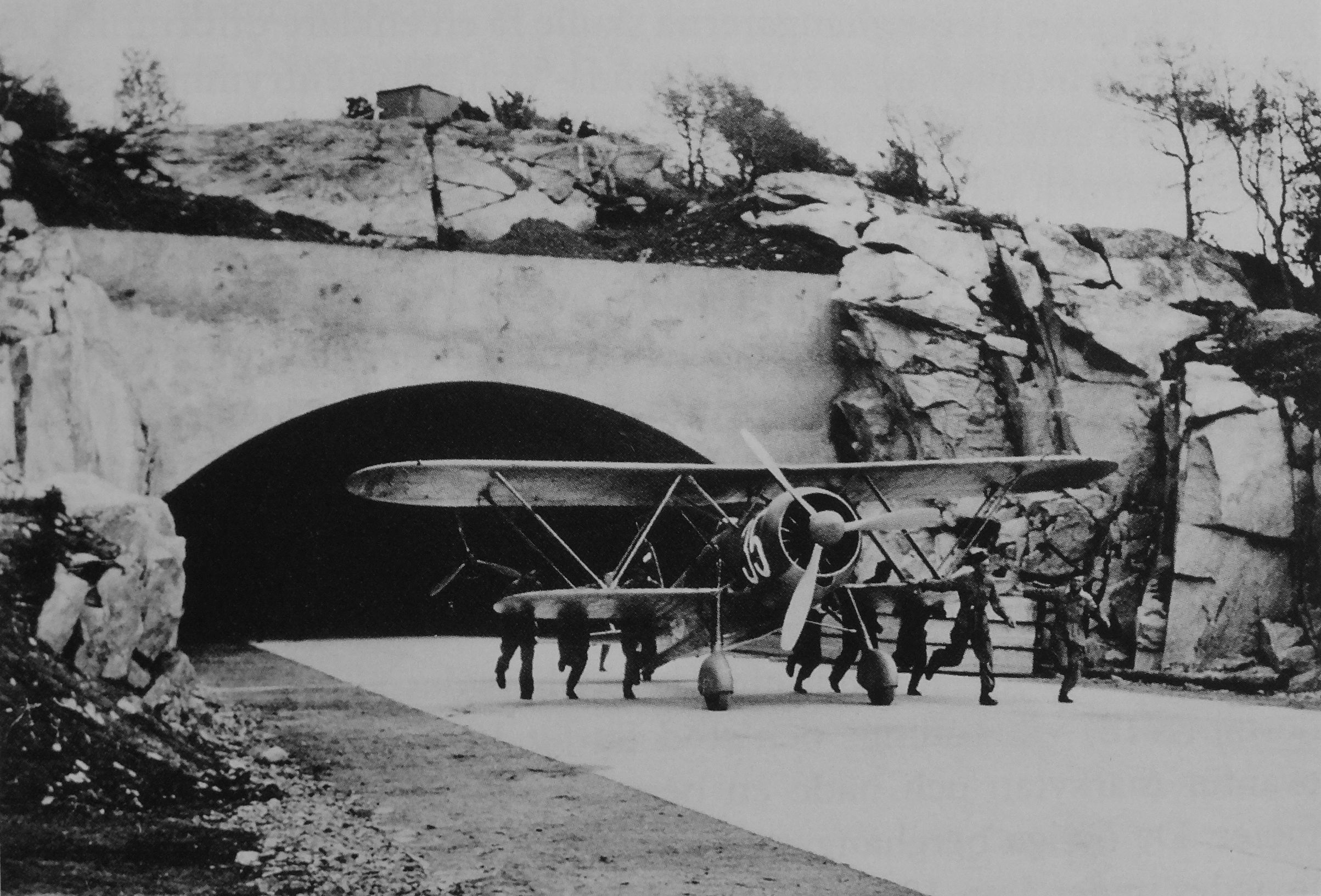 One of the worlds last manufactured fighter biplanes, FiatCR42, is rolled out from one of the worlds first underground hangars, the Old mountain at F9 Säve, Sweden, in 1942-1943.